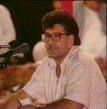 Jamshed Masroor, Norwegian-Pakistani writer